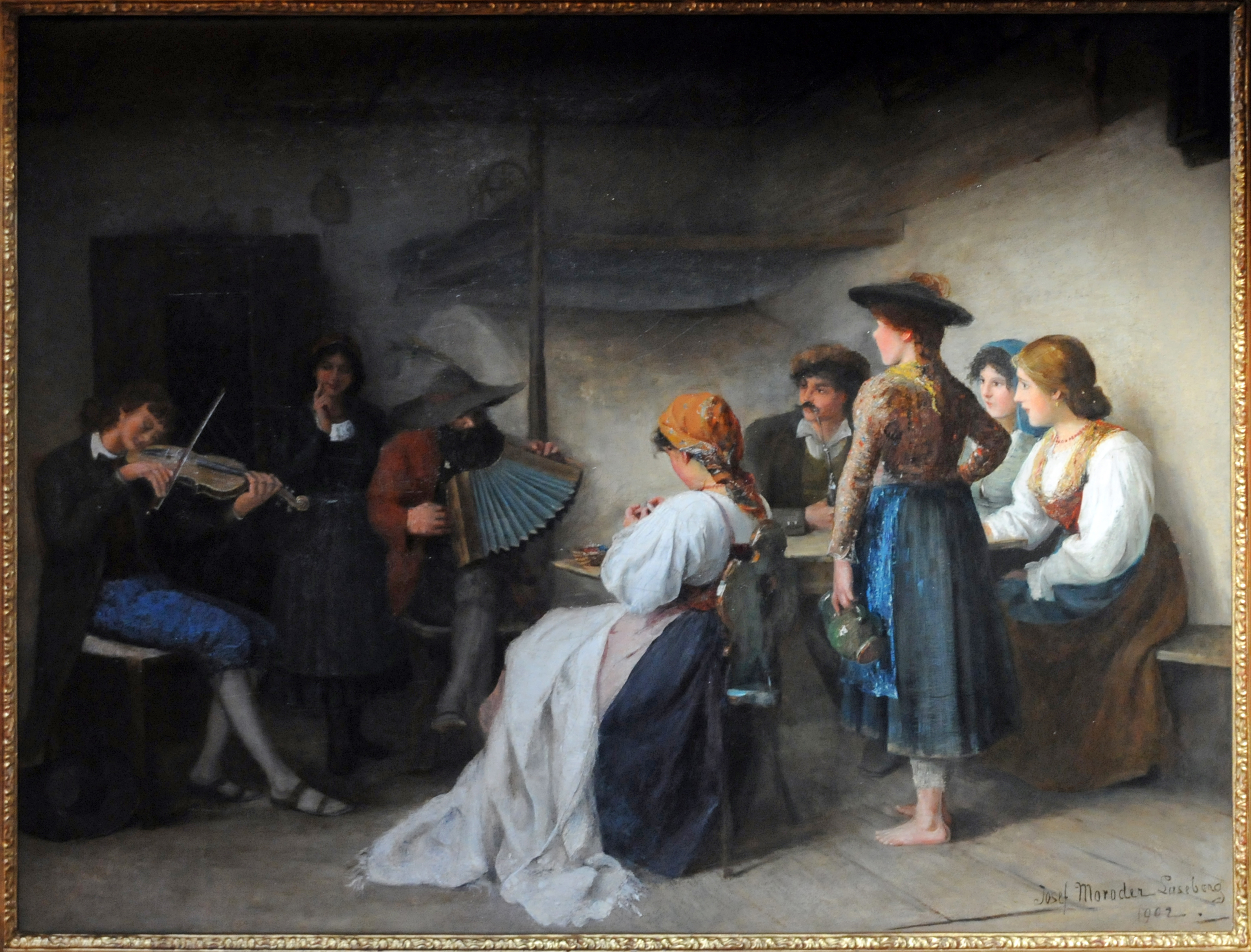 Musicians in an old farmhouse in St. Ulrich in Gröden) - Painting by Josef Moroder Lusenberg